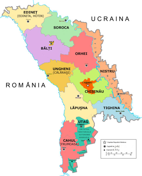 Moldova's judete (1998-2001)